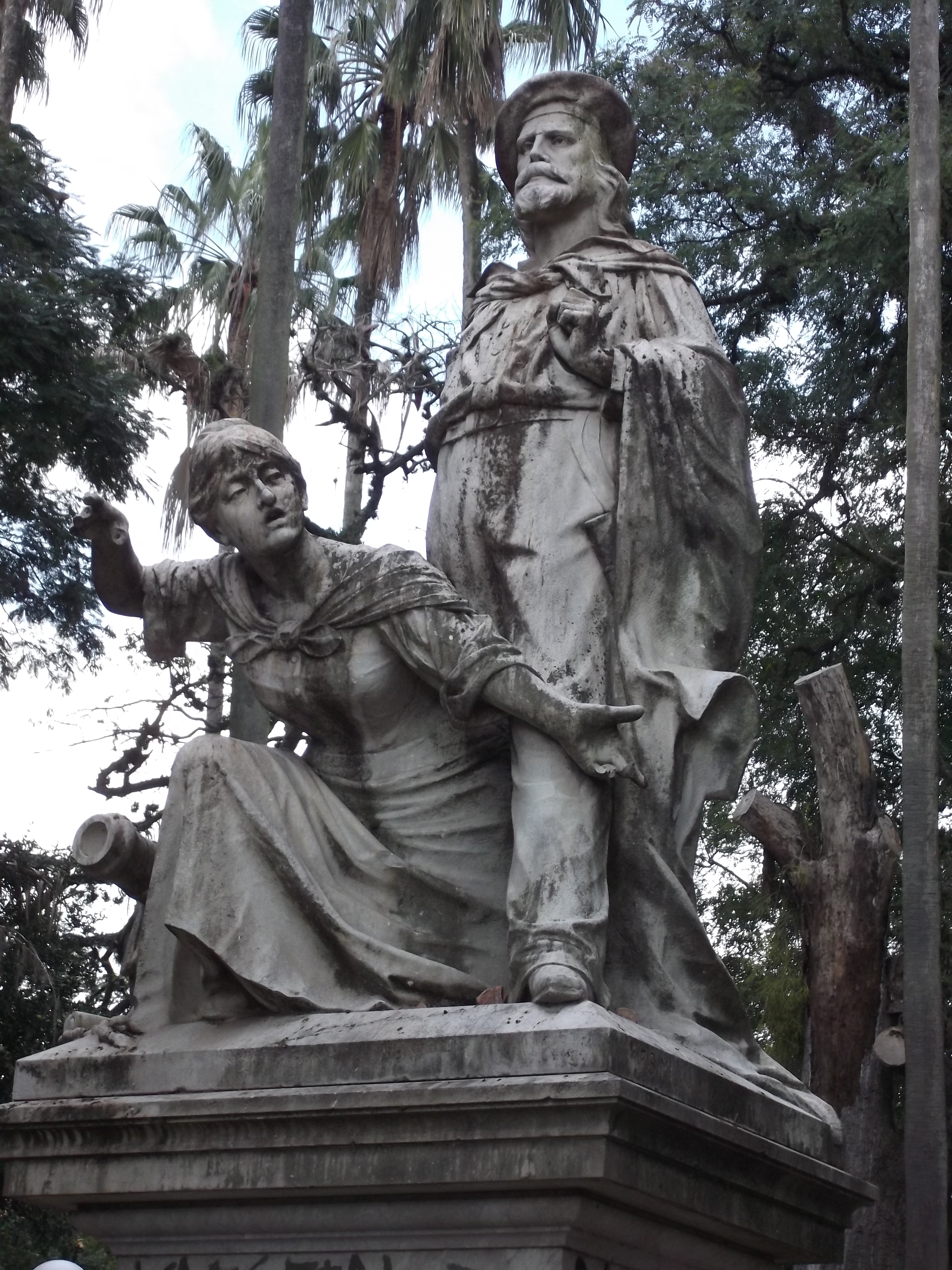 Monument to Anita and Giuseppe Garibaldi, Porto Alegre, Rio Grande do Sul, Brazil